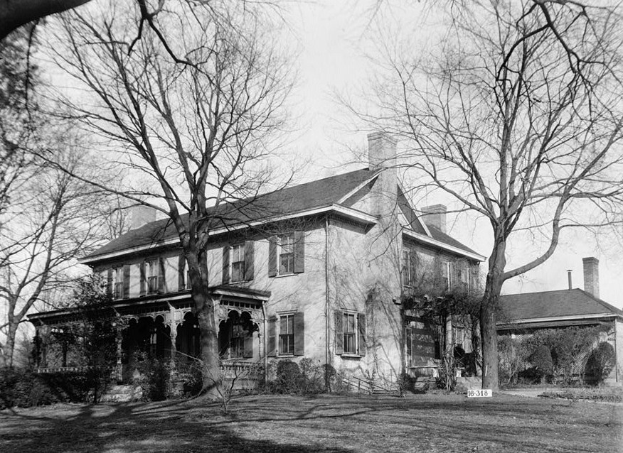 John Daniel Rather House, 209 South Cave Street, Tuscumbia (Colbert County, Alabama) cropped This file comes from the Historic American Buildings Survey (HABS), Historic American Engineering Record (HAER) or Historic American Landscapes Survey (HALS). These are programs of the National Park Service established for the purpose of documenting historic places. Records consist of measured drawings, archival photographs, and written reports. When reusing please credit: Library of Congress, Prints & Photographs Division, ALA,17-TUSM,5-1 This tag does not indicate the copyright status of the attached work. A normal copyright tag is still required. See Commons:Licensing. This work is in the public domain in the United States because it is a work prepared by an officer or employee of the United States Government as part of that person’s official duties under the terms of Title 17, Chapter 1, Section 105 of the US Code. Note: This only applies to original works of the Federal Government and not to the work of any individual U.S. state, territory, commonwealth, county, municipality, or any other subdivision. This template also does not apply to postage stamp designs published by the United States Postal Service since 1978. (See § 313.6(C)(1) of Compendium of U.S. Copyright Office Practices). It also does not apply to certain US coins; see The US Mint Terms of Use. This file has been identified as being free of known restrictions under copyright law, including all related and neighboring rights. Object location34° 43′ 50″ N, 87° 41′ 56″ W